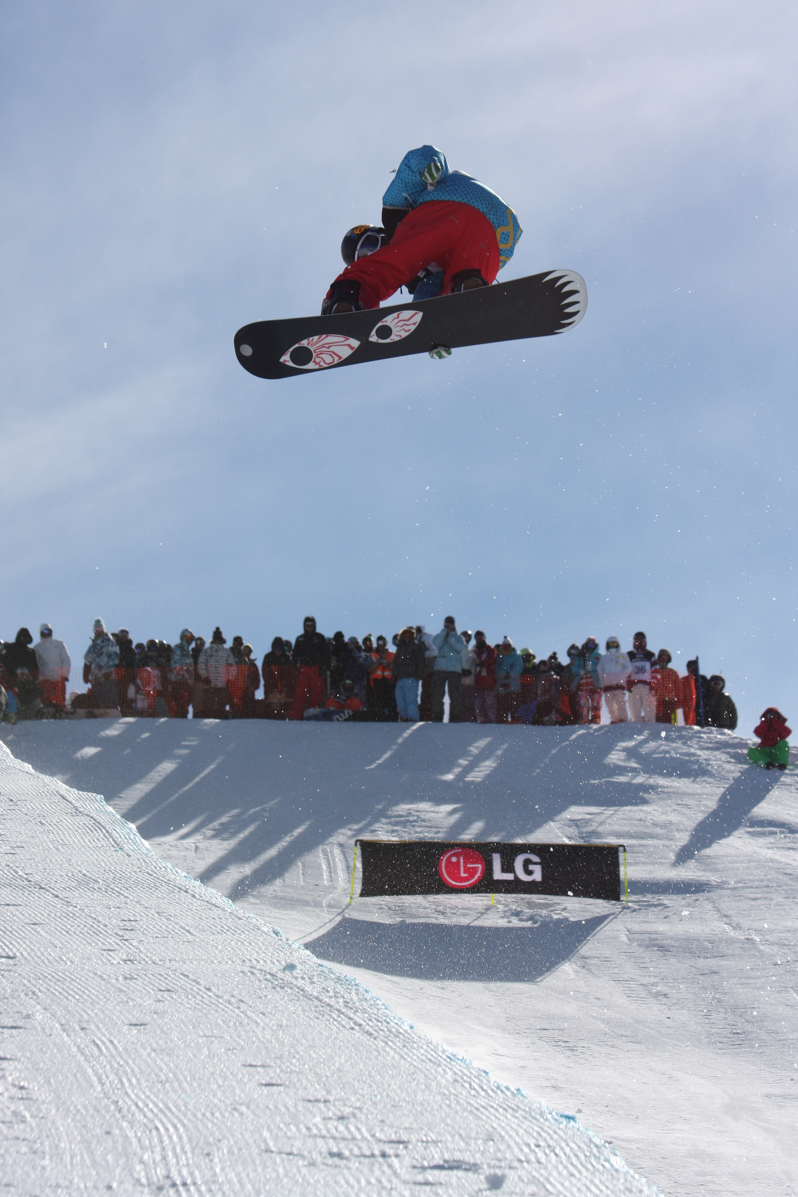 Finale 204_Ethan_Morgan_GER